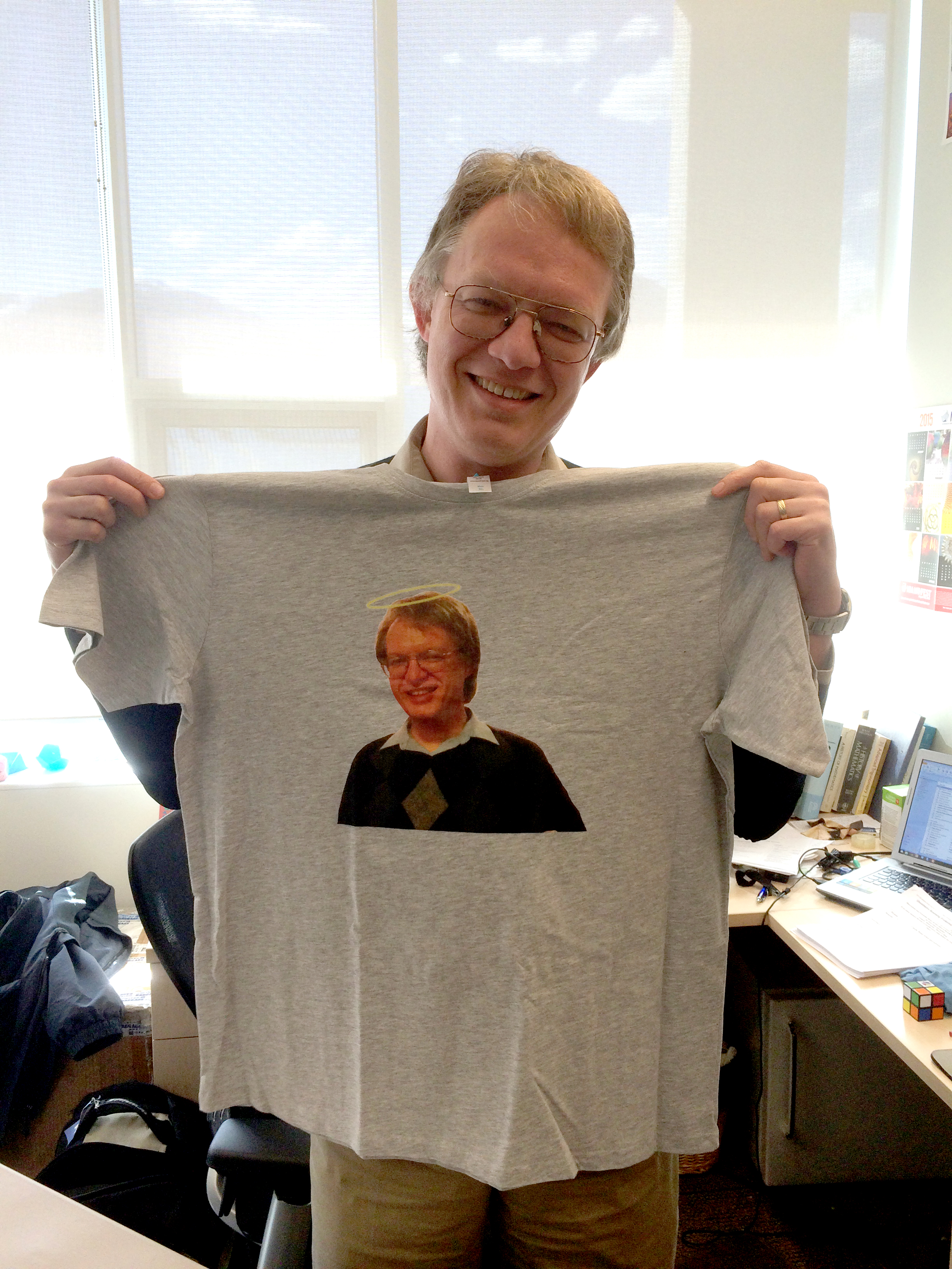 Photo of Glen Van Brummelen. Shirt was created via a student at Quest University Canada who worked closely with Glen